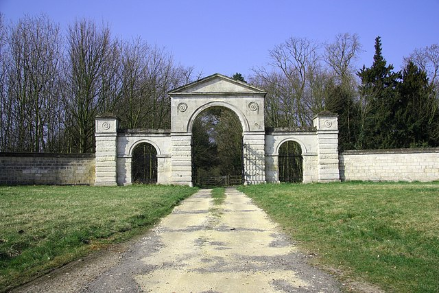 Malpas Hill Gateway Sandbeck Park Estate gateway on Malpas Hill, by James Paine c1760 for the Earl of Scarborough